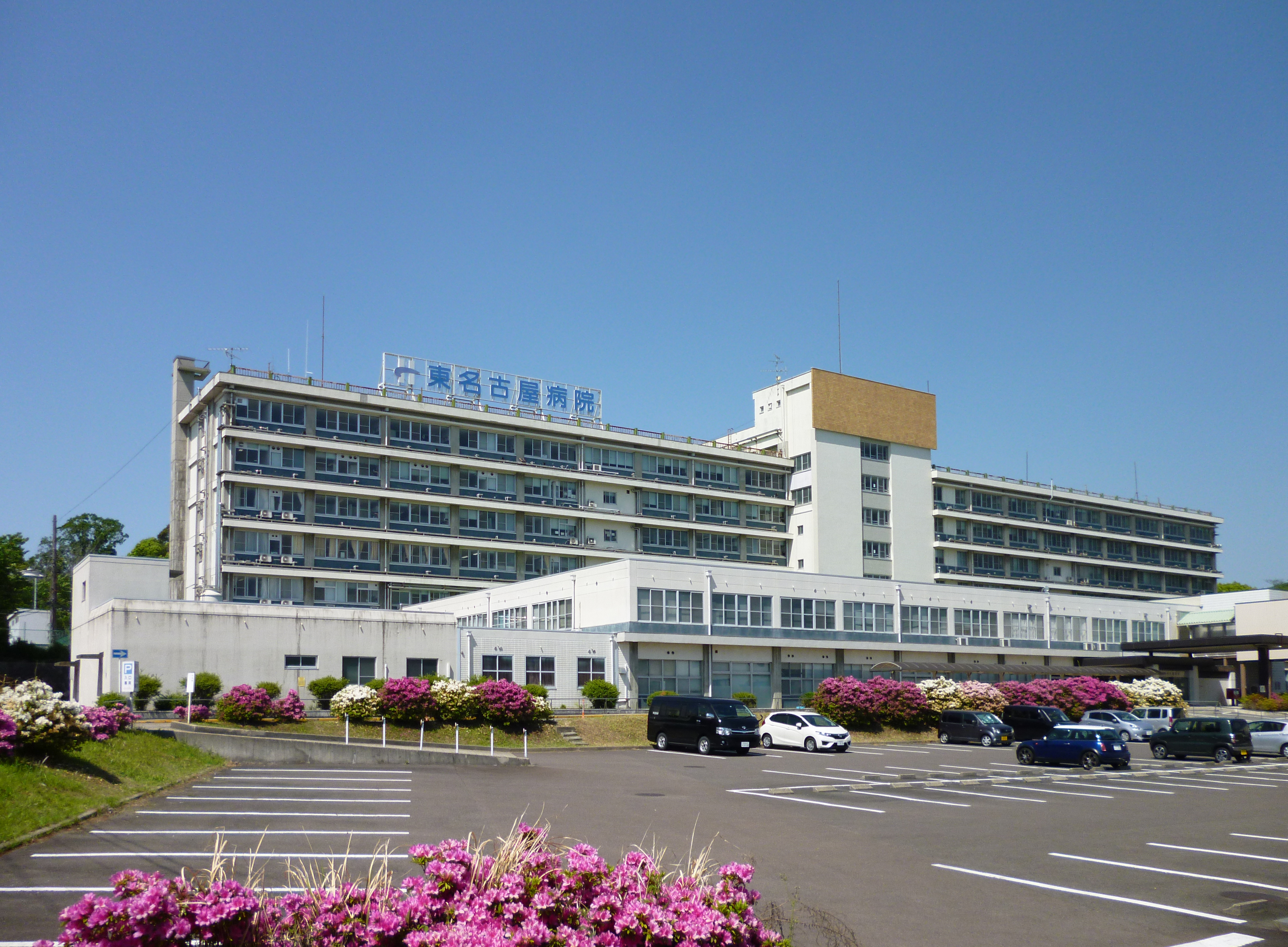 East Nagoya Hospital in Meitō-ku, Nagoya, Nagoya, Aichi, Japan.